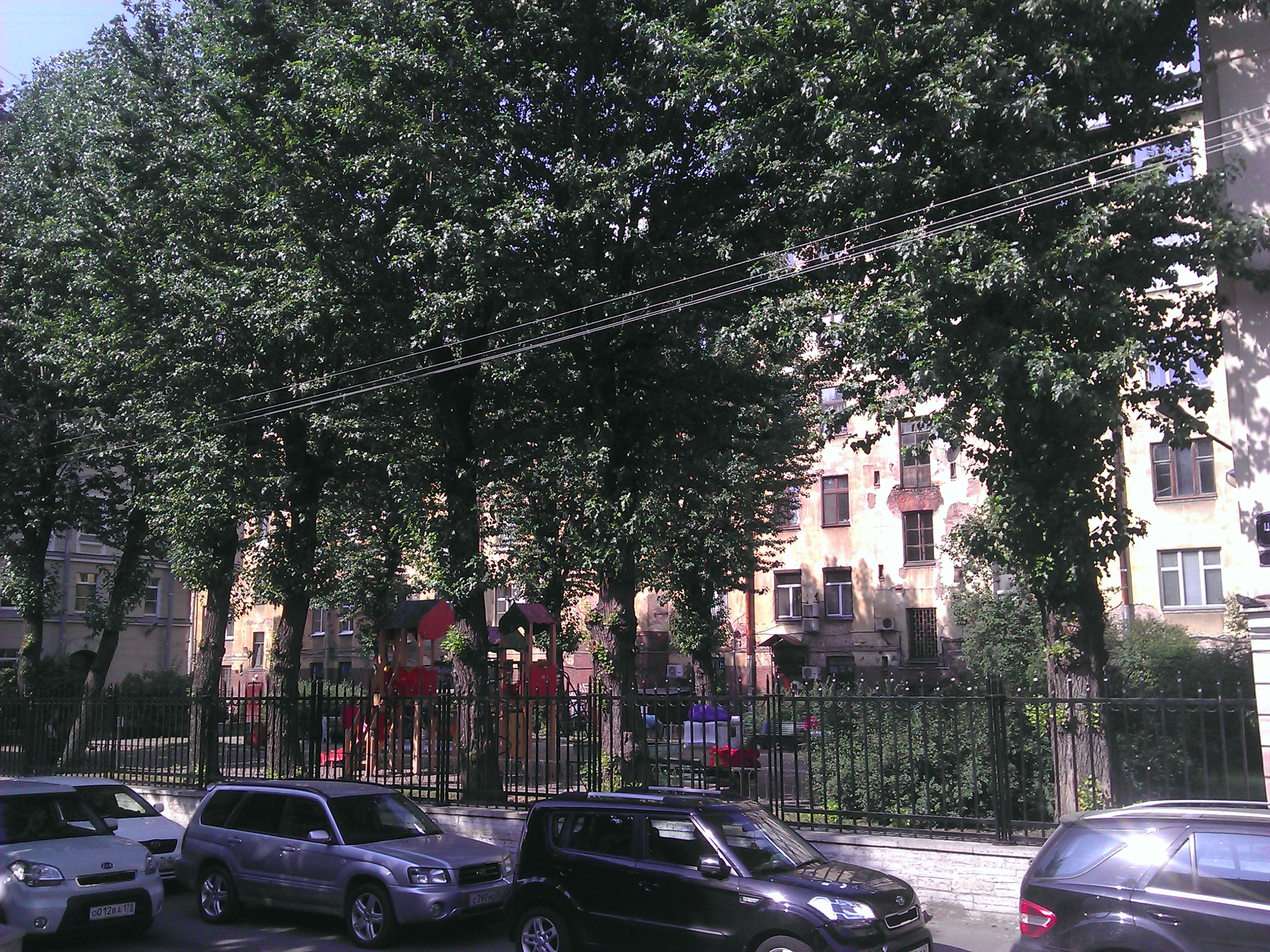 Eduard Khil square in Saint Petersburg, Russia.